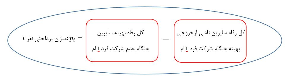 VCG mechanism